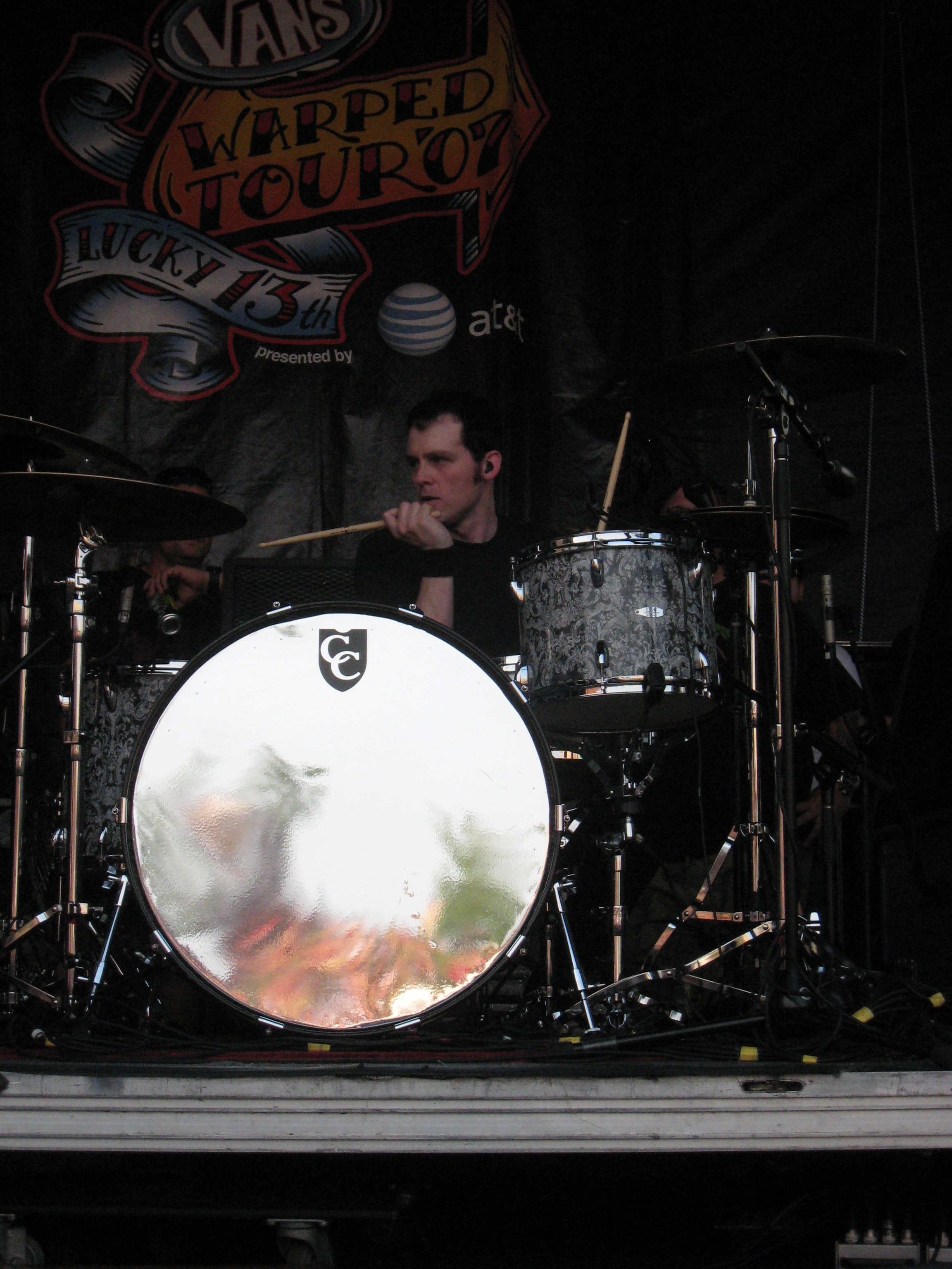 Derek Grant playing the drums at Vans Warped Tour 07'. Taken with a Canon PowerShot SD800 IS.